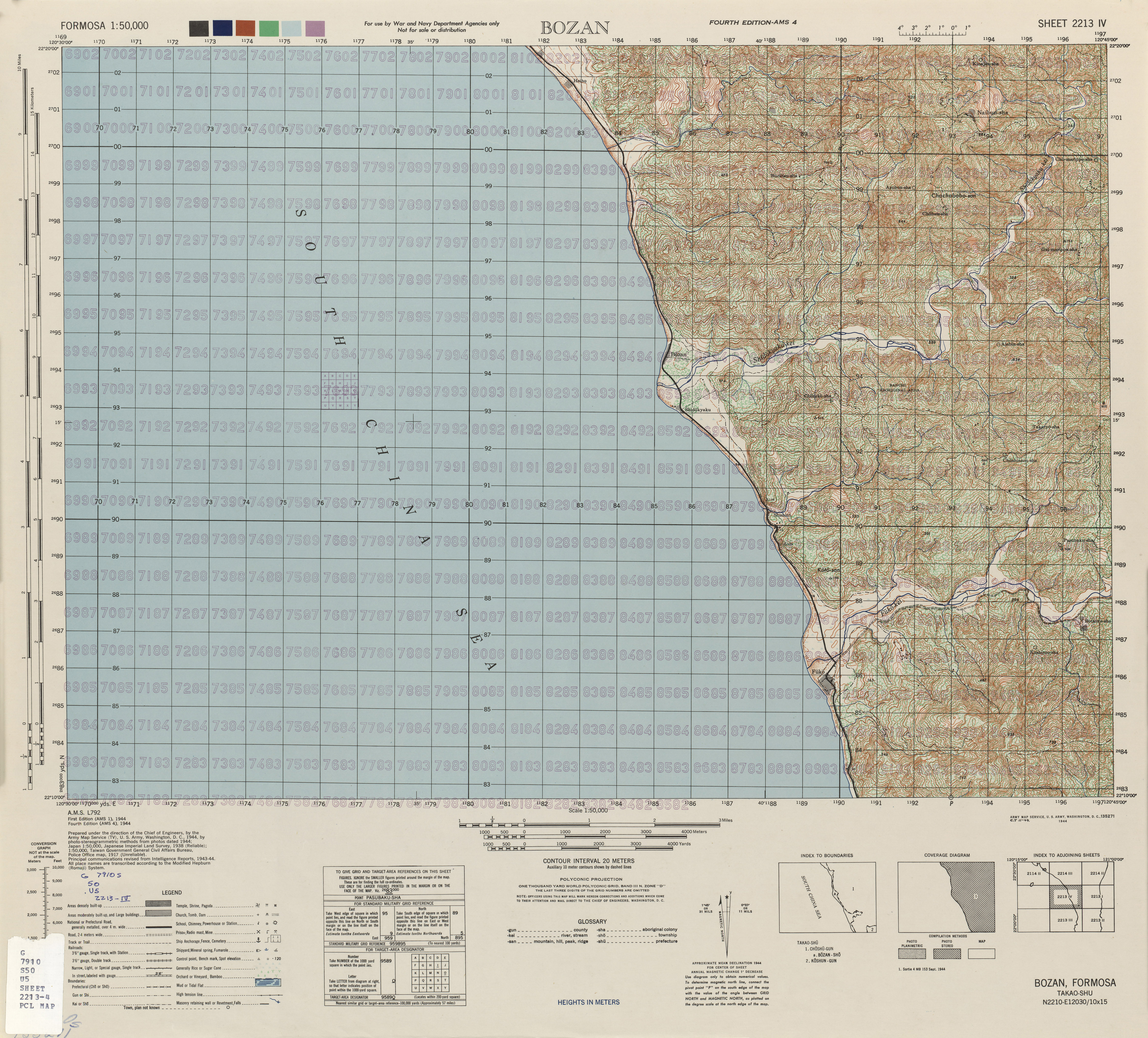 Maps from Formosa (Taiwan) 1:50,000 AMS Series L792